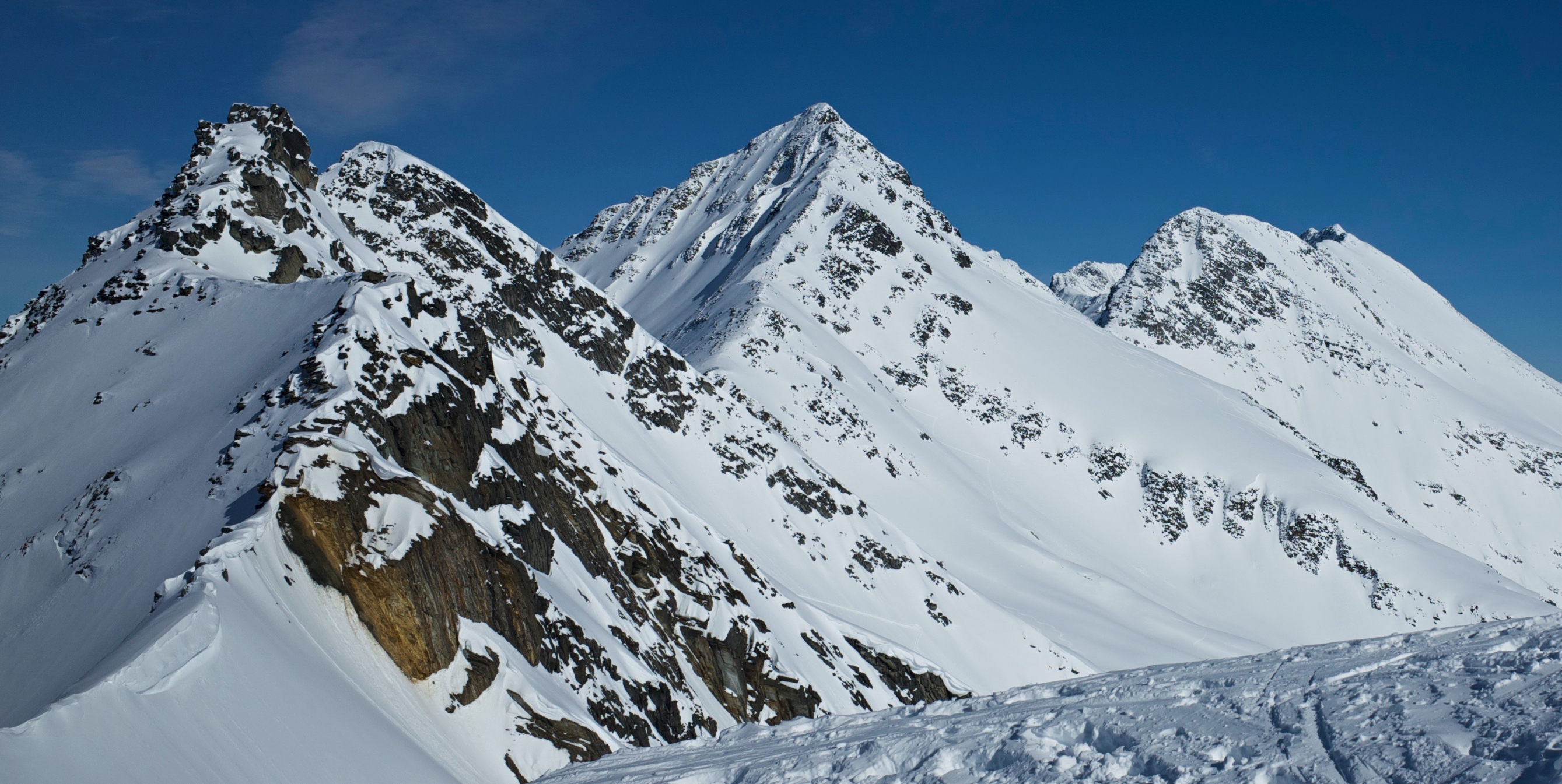 Ursus Minor Mountain and Grizzly Mountain behind